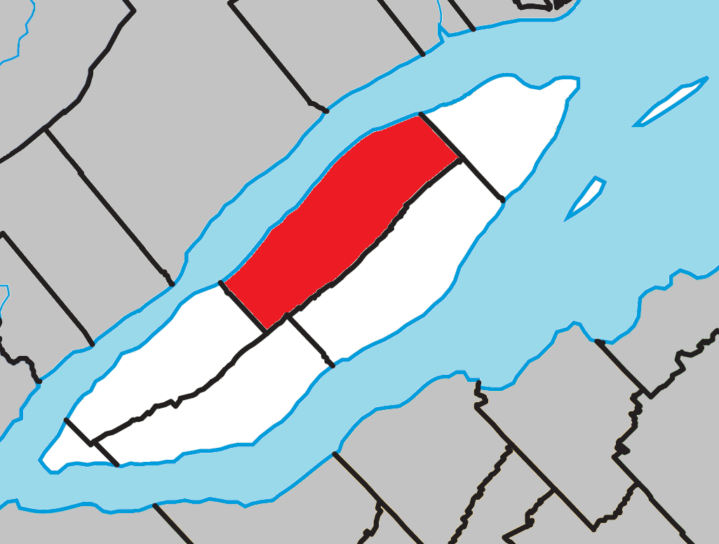 Location of Sainte-Famille, Quebec within L'Île-d'Orléans Regional County Municipality.